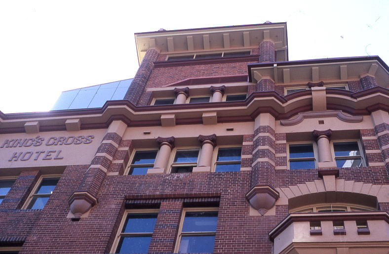 kings cross hotel, sydney